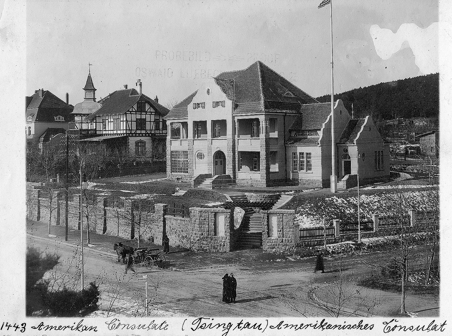 American Consulate in Tsingtau